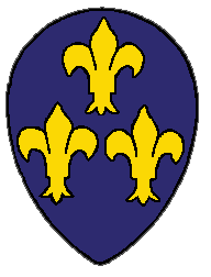 Coat of arms of Pope Celestine II